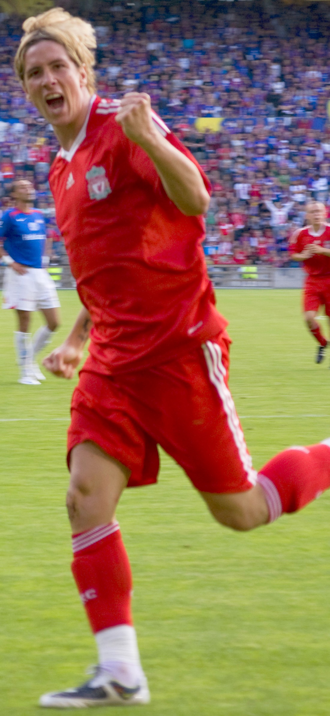 Fernando Torres after scoring goal against Vålerenga at Ullevaal Stadium, Norway.